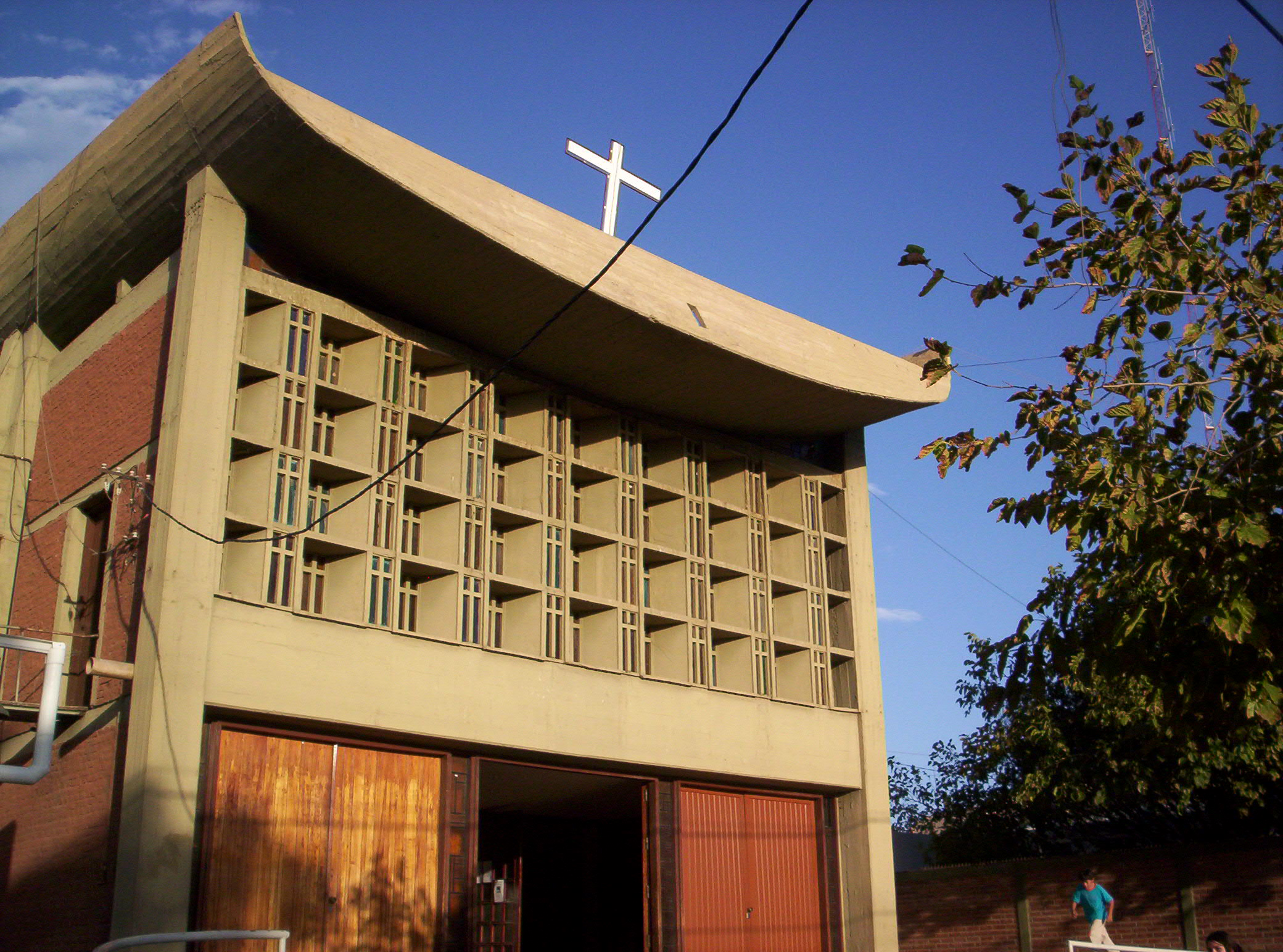 Iglesia de Cristo Rey, ubicada en la Ciudad de Caucete, provincia de San Juan, Argentina Church of Christ the King, located in the City of Caucete, in the province of San Juan, Argentina